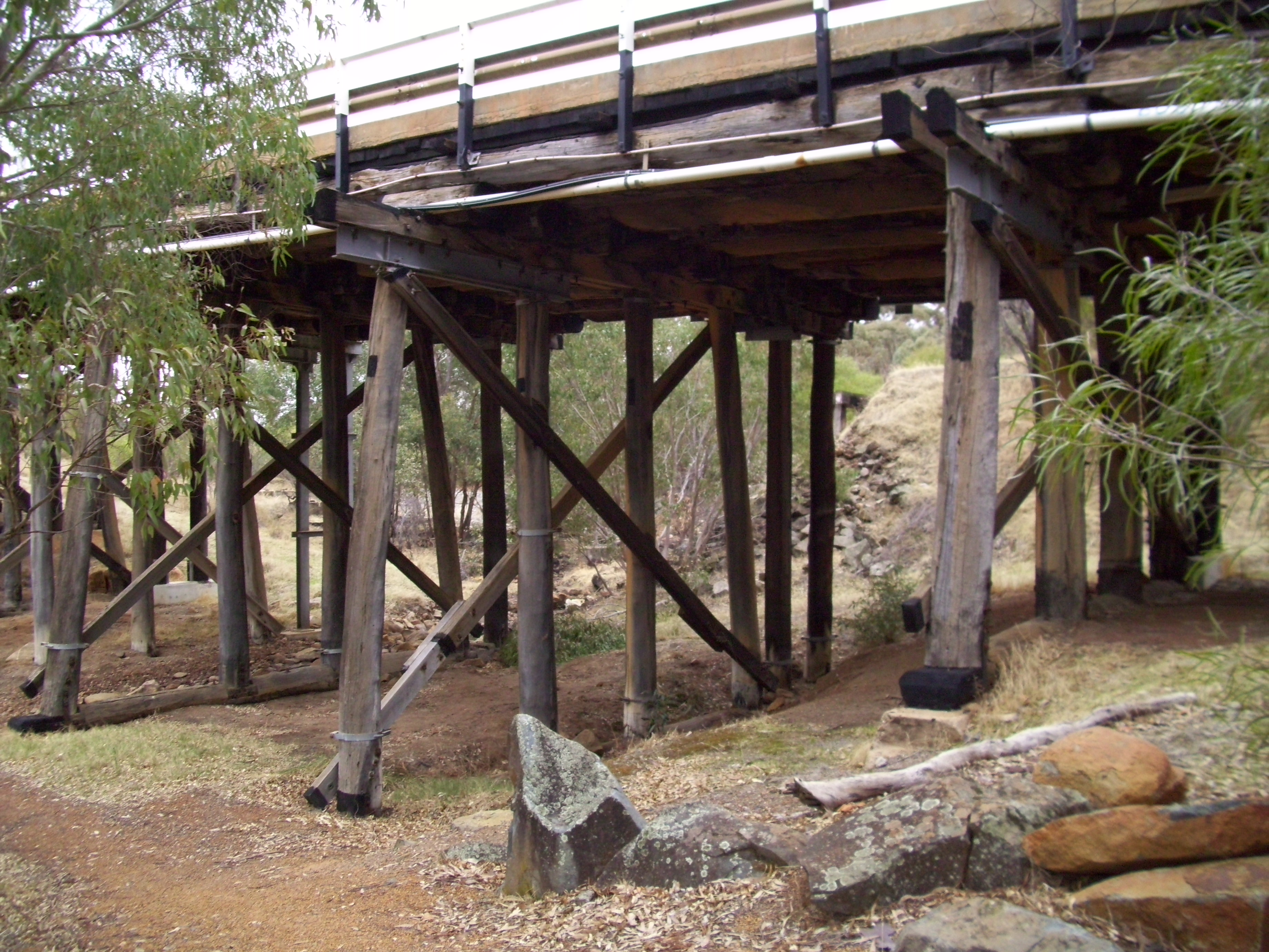 View of Clackline Bridge from below.